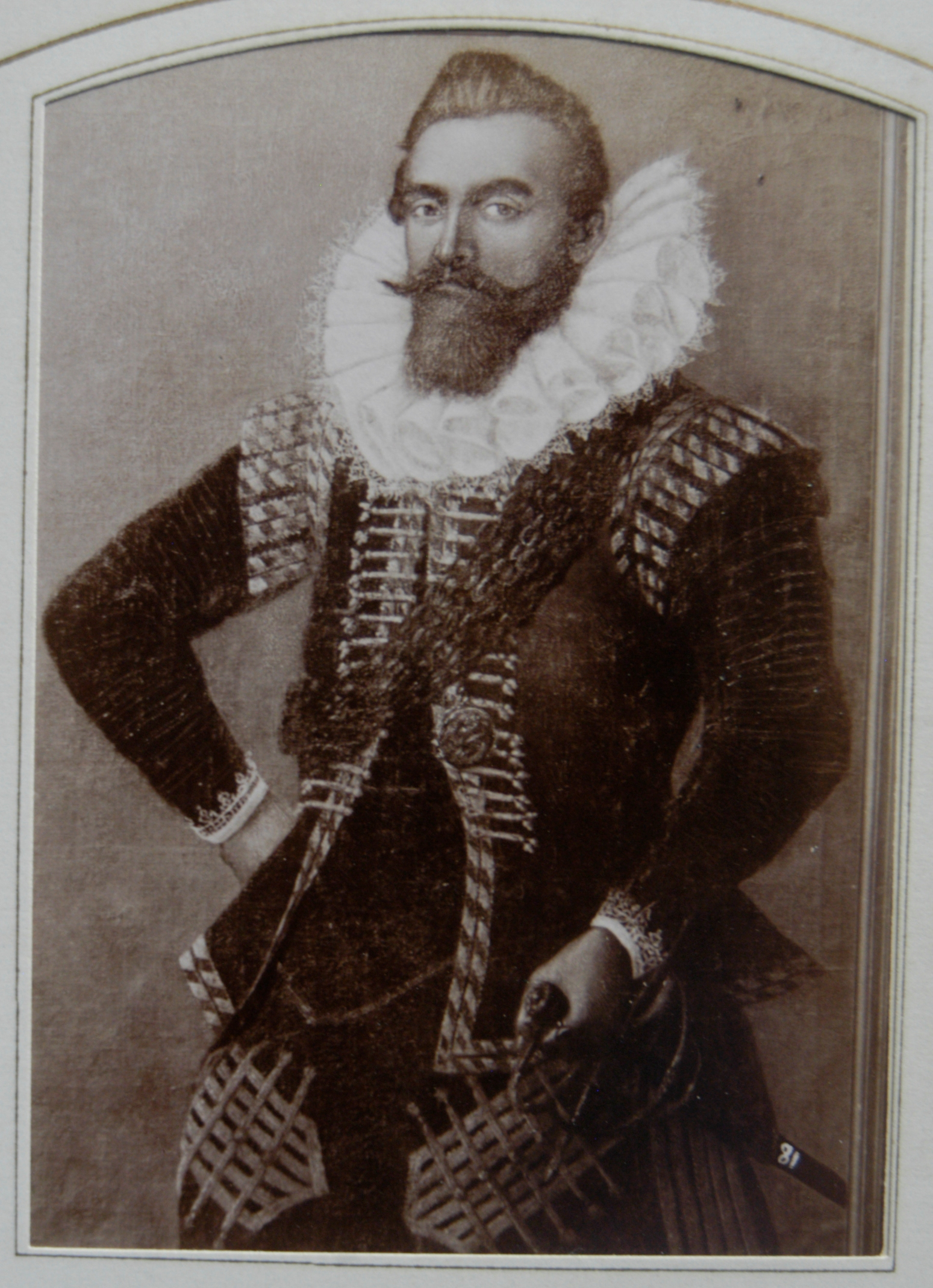 Giovanni Battista à Salis-Soglio (1521-1597), Eques Auratus. Nephew of Dietegan 'Magnus'. He married Anna (1552-1613) daughter of commissari Federico à Salis-Samedan (1512-1613).